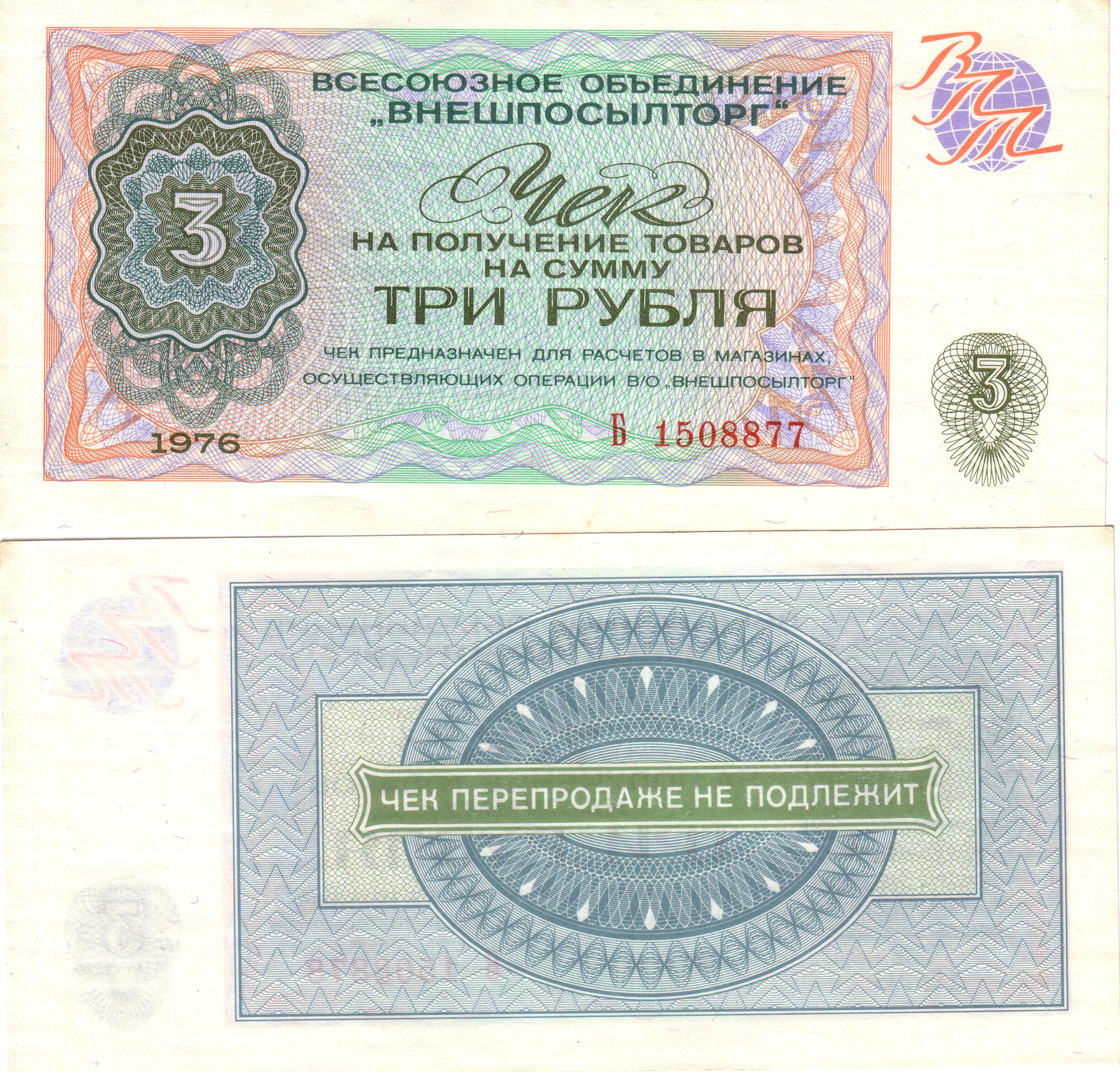 A 'check' of Vneshposyltorg, a kind of parallel currency in the USSR used to pay for goods bought in special 'Beryozka' shops selling mostly Western-made goods. 3 rubles, 1976.